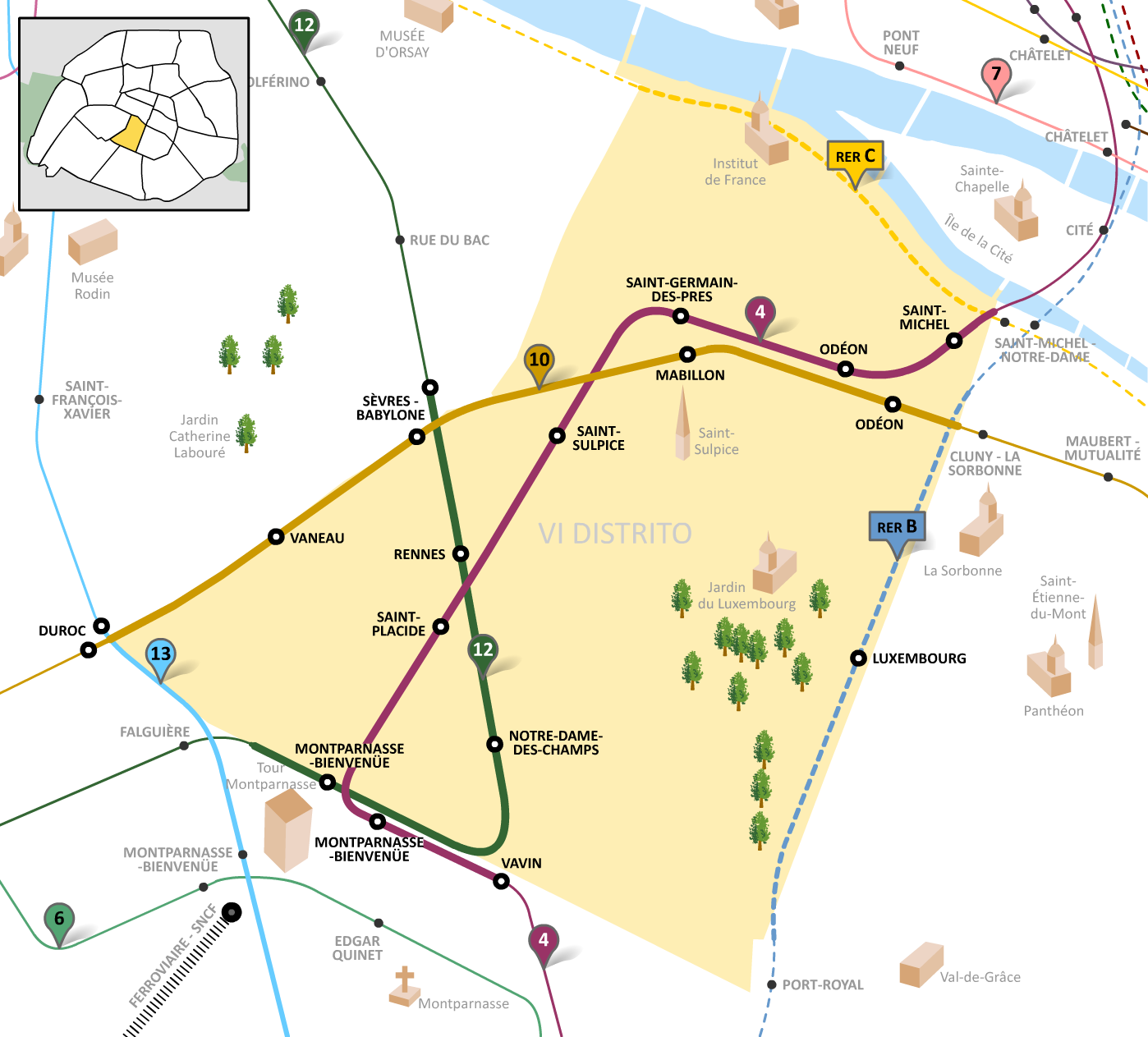 Paris 6th district (France), metro (subway) lines and RER. In spanish